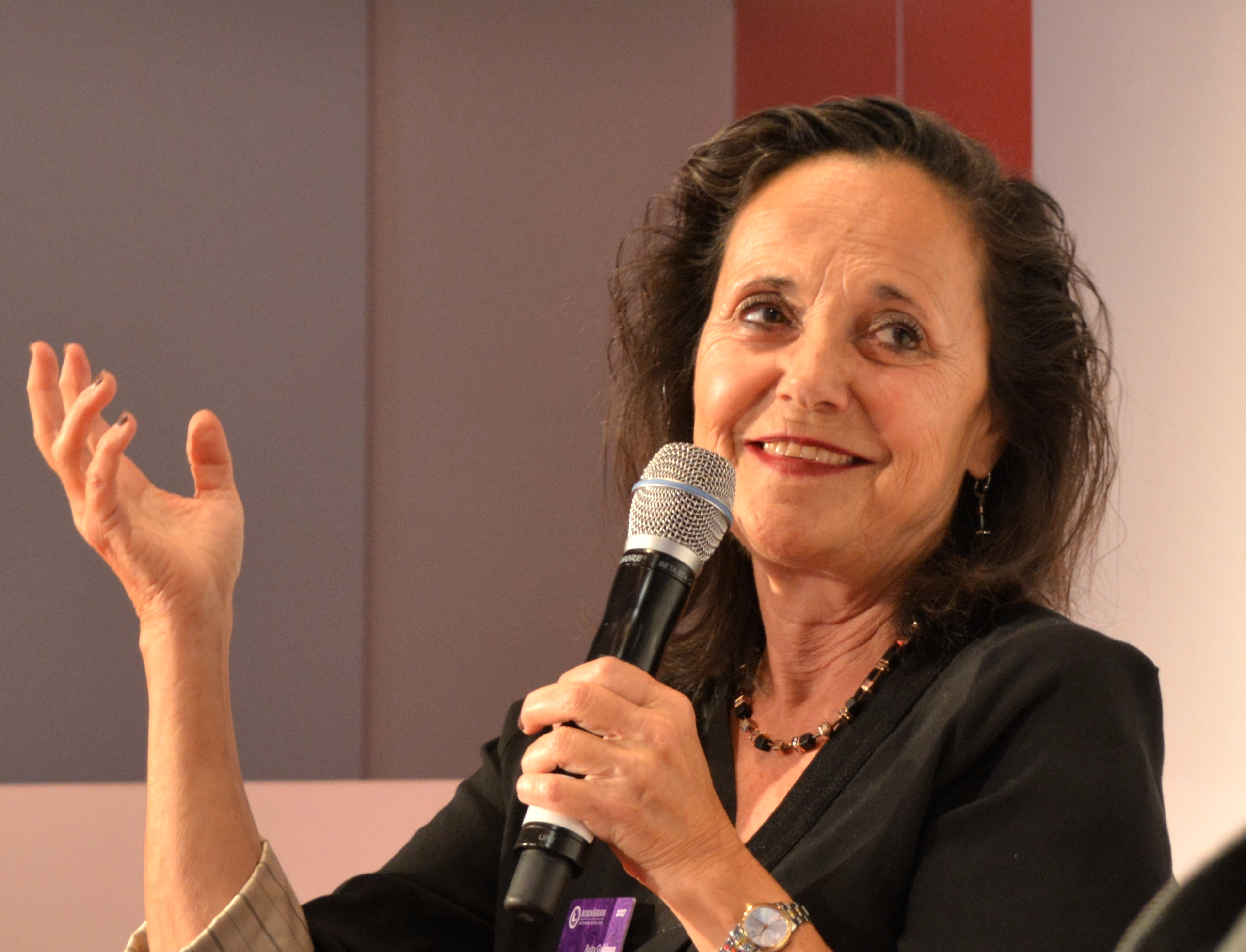 Anita Goldman, Swedish author